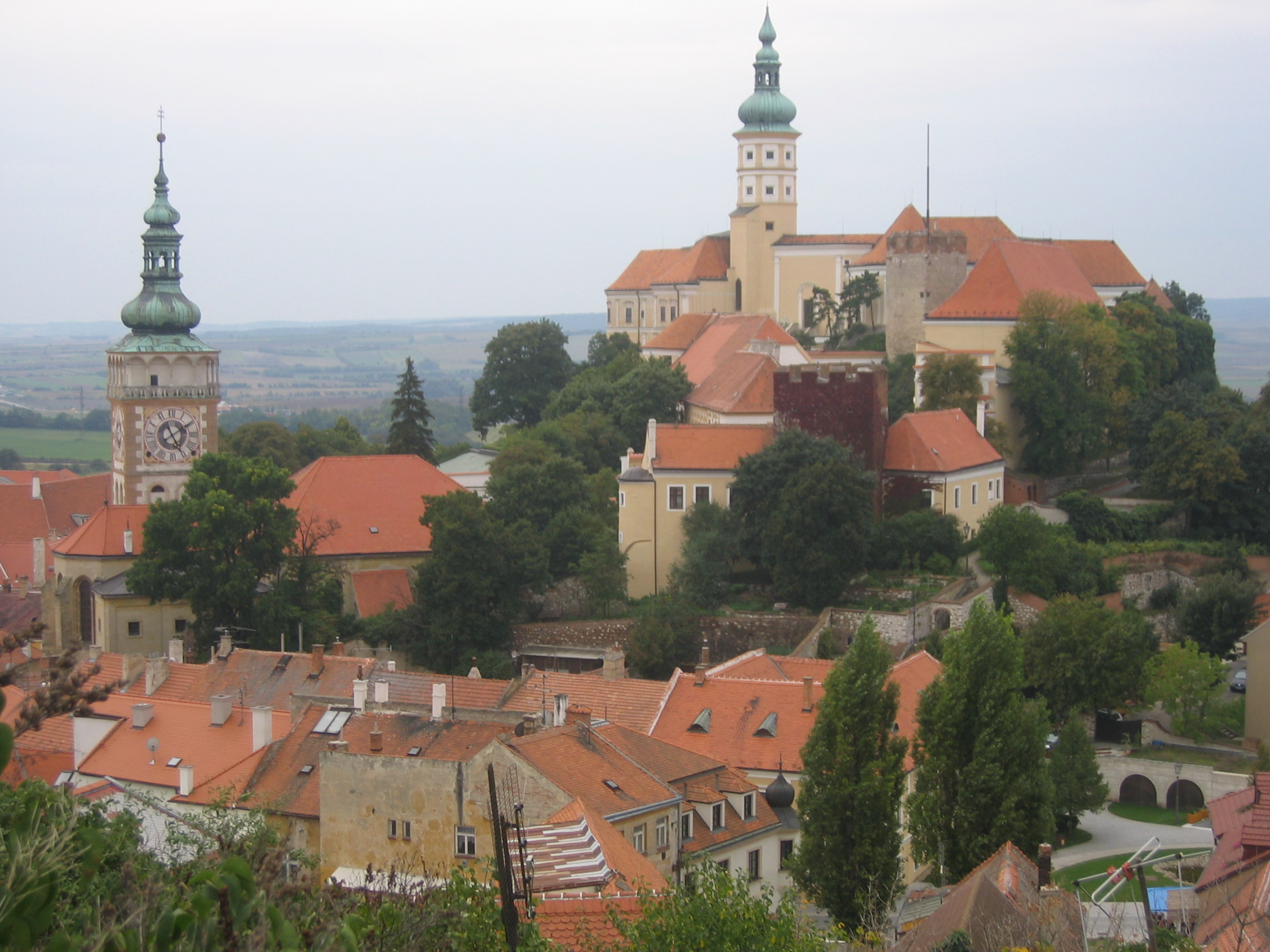 Mikulov - general view of the city(Czech Republic, South Moravian Region)